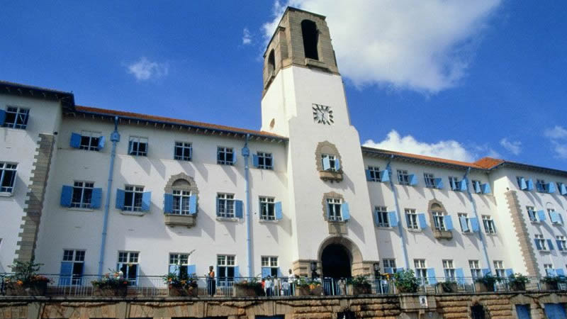 The Makerere University tower, Kampala, Uganda